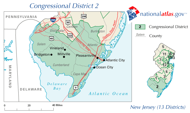 NJ's 2nd US Congressional District. from Category:Congressional districts of New Jersey Category:New Jersey maps